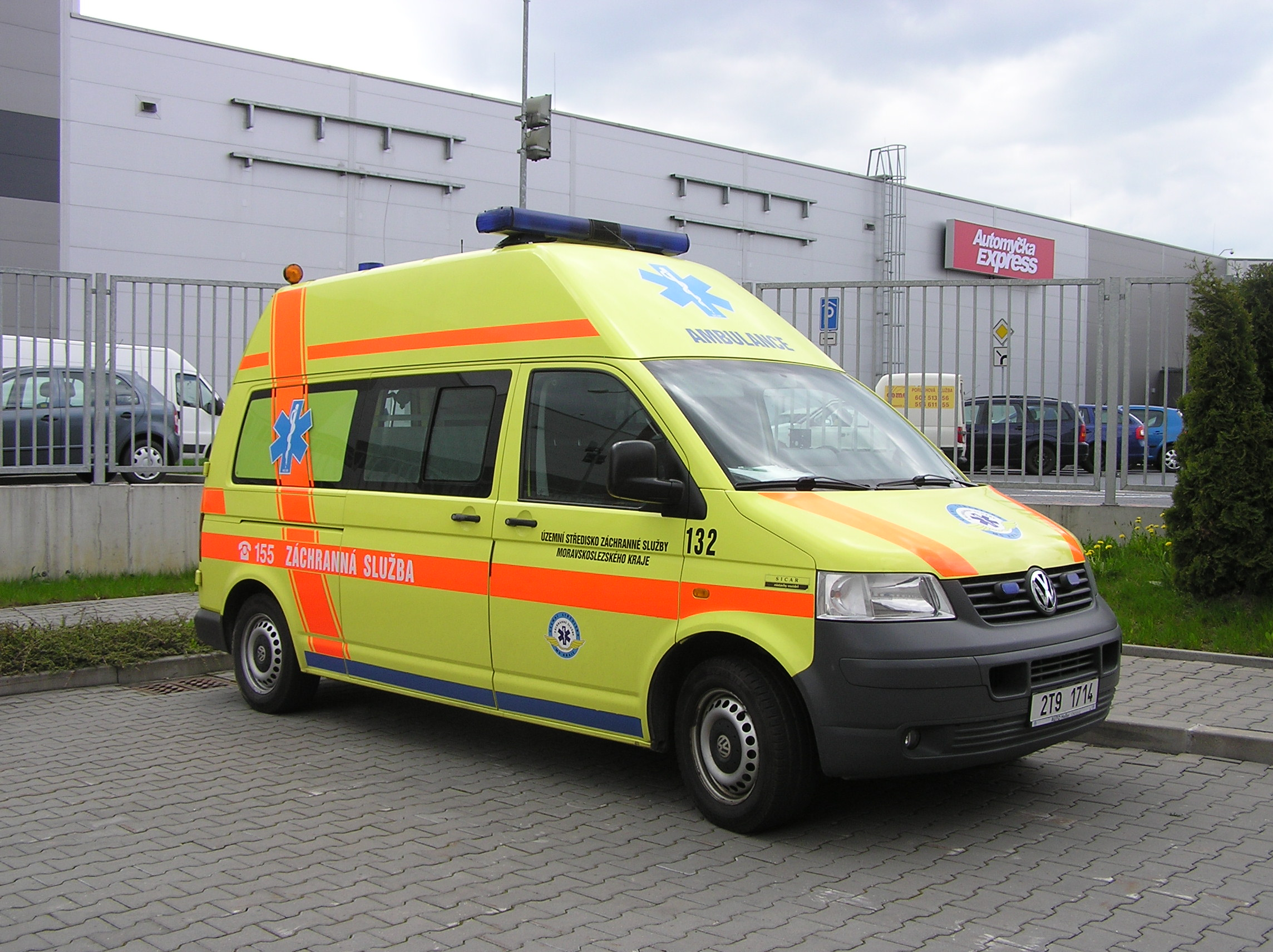 Ambulance vehicle (Volkswagen Tranporter T5) of the Emergency Medical Services of the Moravian-Silesian Region, Ostrava, Czech Republic